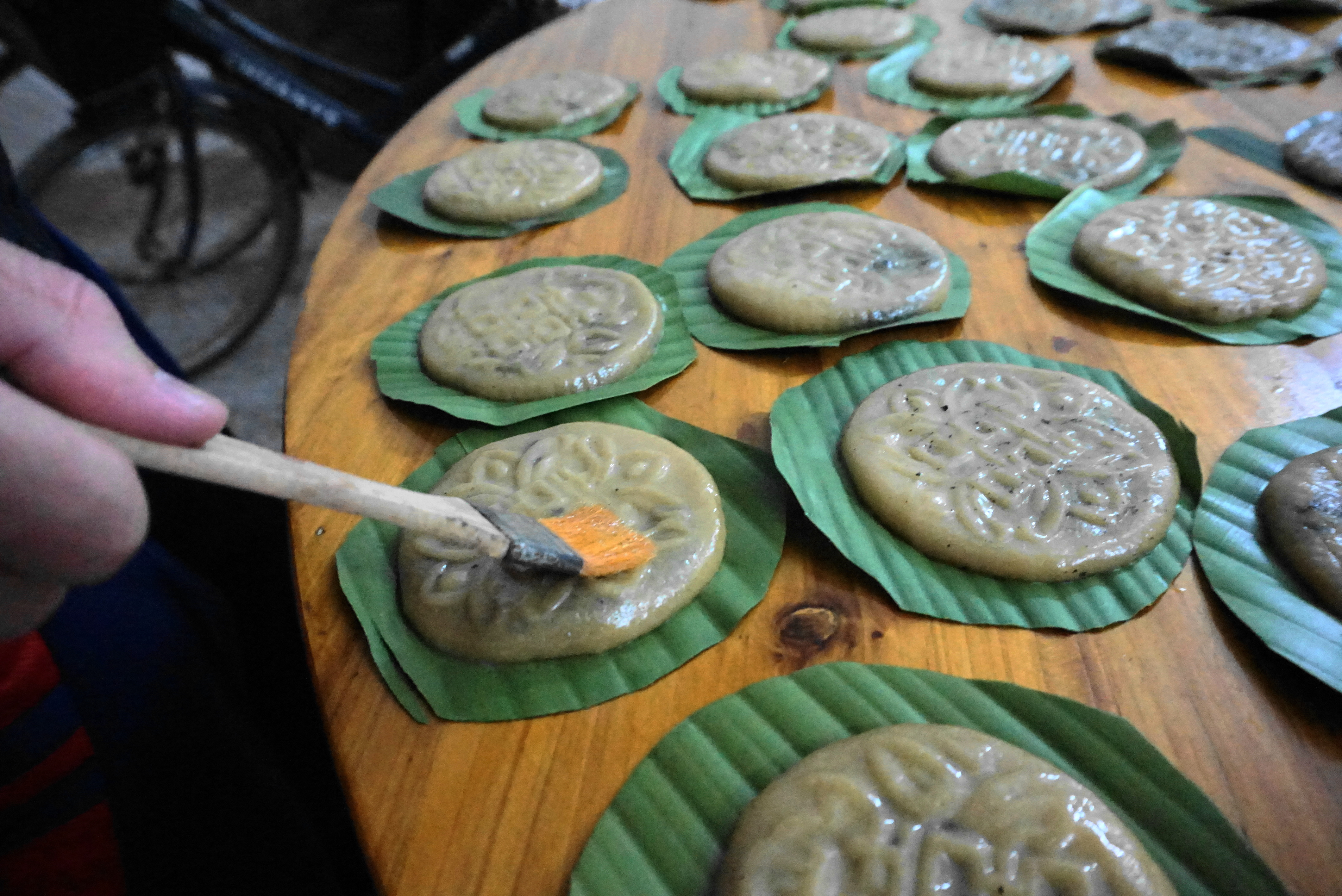 Imprinted black sesame rice cake is a folklore cuisine in some regions of Guangdong (Canton) and Guangxi, gets its name from shaping with imprinted moulds, like Cantonese moon cakes. Brushing oil on steamed imprinted black sesame rice cake, make sure they would not stick together, before stacking and refrigerated/frozen. Ones in the photo are little bit out of shape as oversteamed. This photo has been taken in the country: China